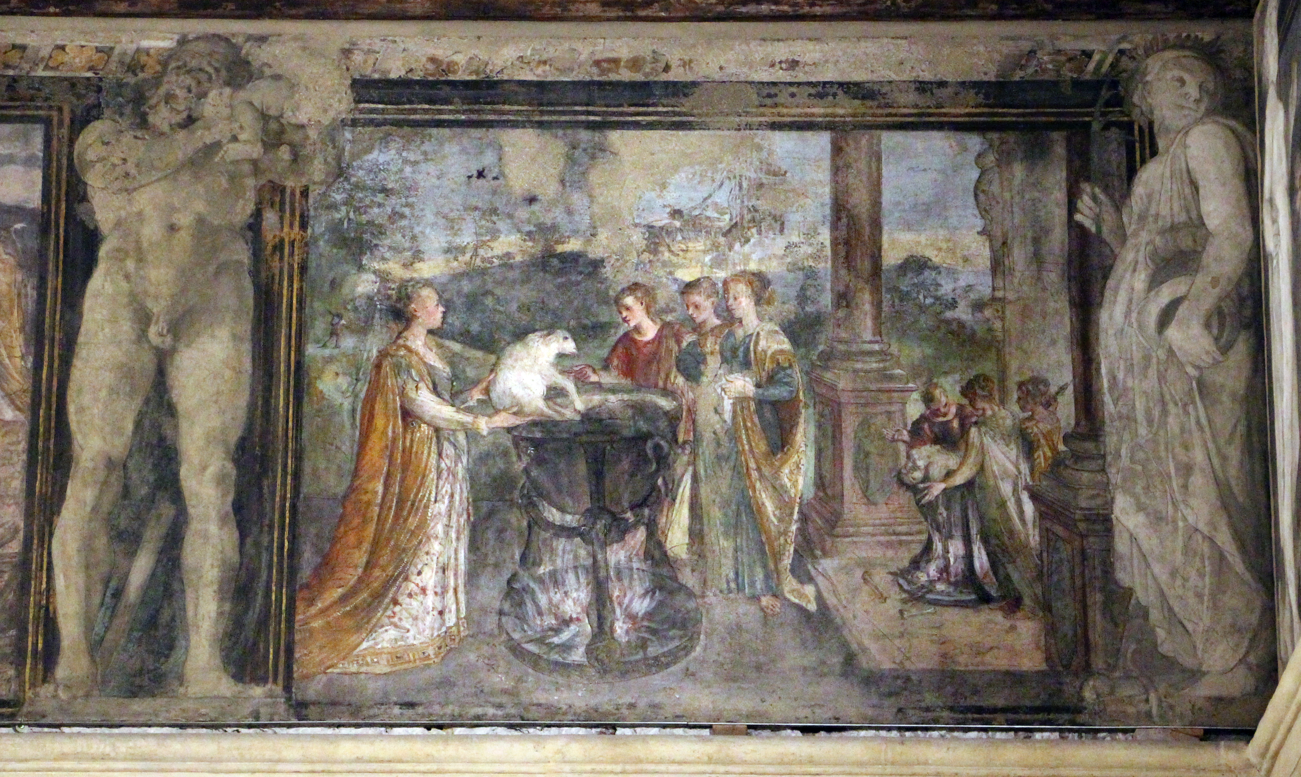 Frieze of Jason and Medea